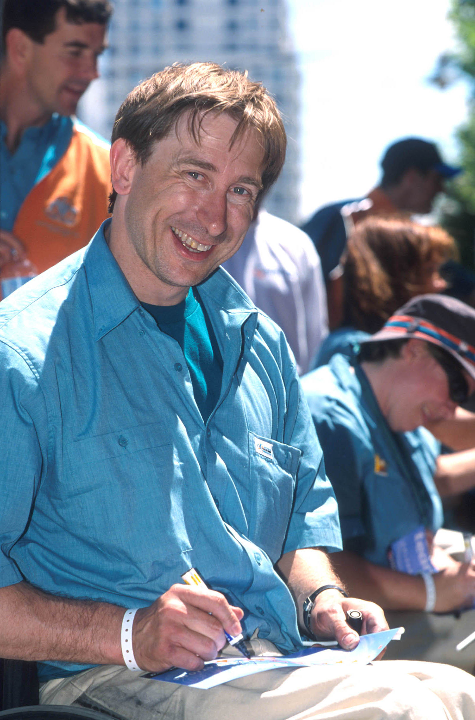 Portrait of Australian wheelchair basketballer Sandy Blythe smiling as he signs/autographs a fan's item during the Welcome Home Parade for athletes after the 2000 Sydney Paralympic Games